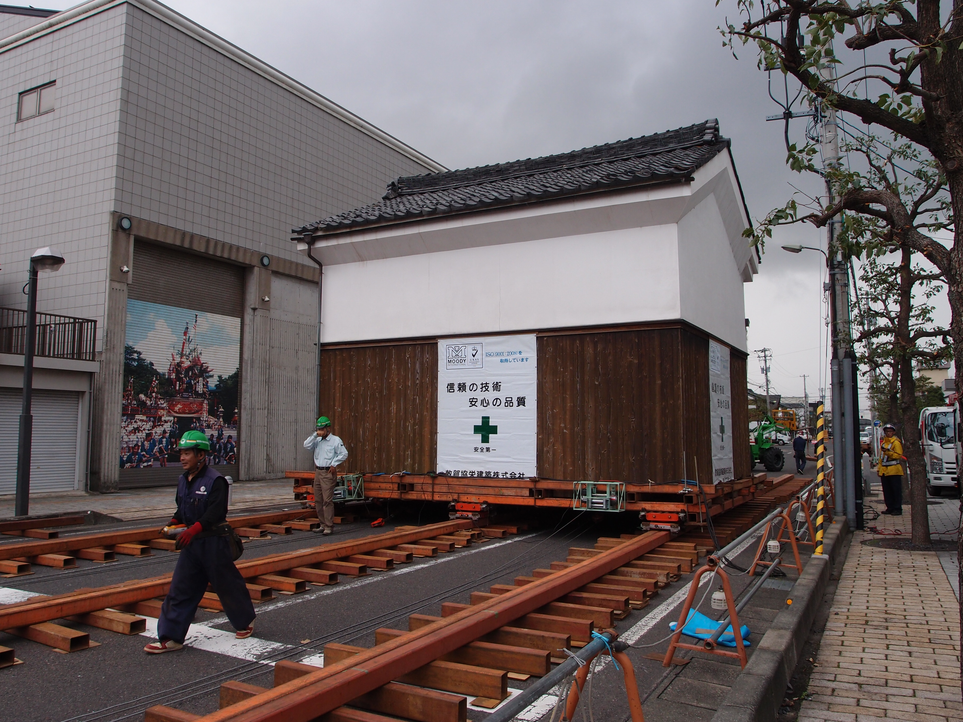 Relocation of old warehouse in Tsuruga City, Fukui Prefecture.